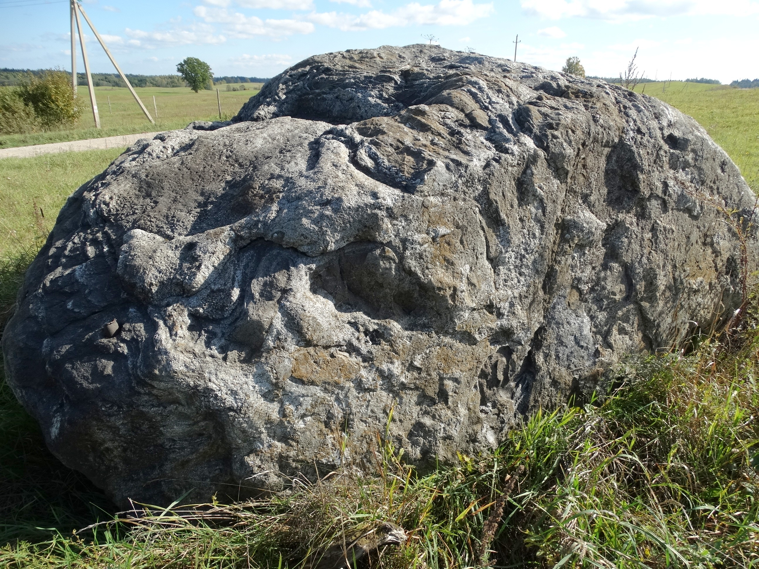 Second Stone, Klėriškės, Kaišiadorys district, Lithuania